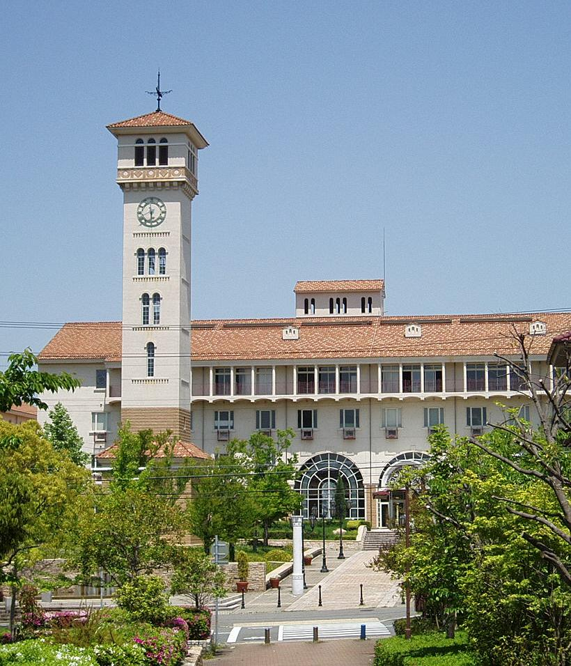 Kobe City College of Nursing. Located in Nishi-ku, Kobe, Japan.